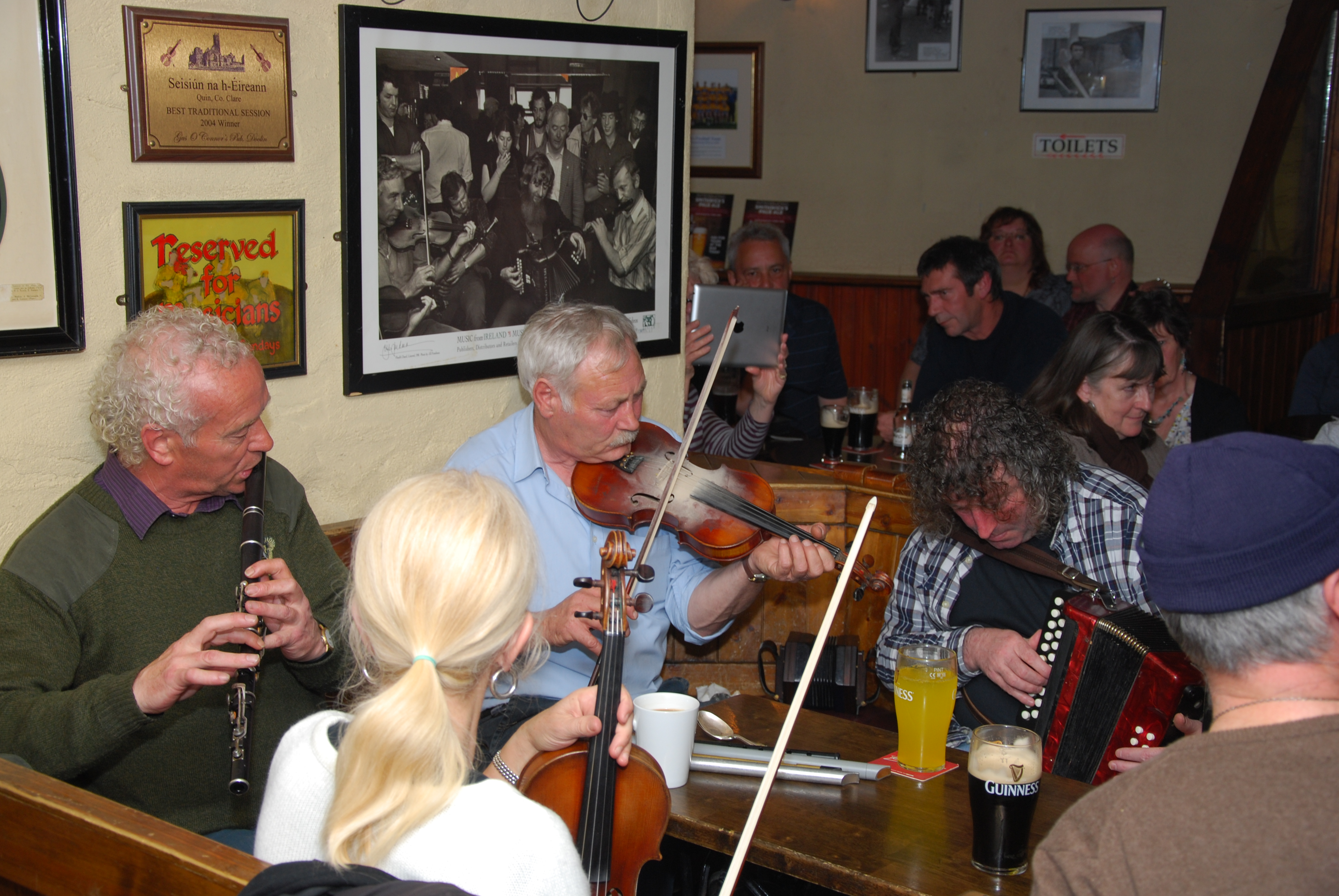 Musicians at Gus O'Connor Pub, Doolin, Ireland